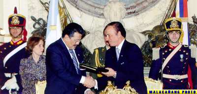 President Joseph "Erap" Ejercito Estrada and Argentine President Carlos Saul Menem exchange copies of the two bilateral agreements the two countries signed to foster bilateral relations. The historic signing was held at the Casa Rosada (the government house in Buenos Aires) on Monday (Sept. 20, Argentina time), the third day of the President’s four-day state visit to Argentina. (Malacanang Photo)